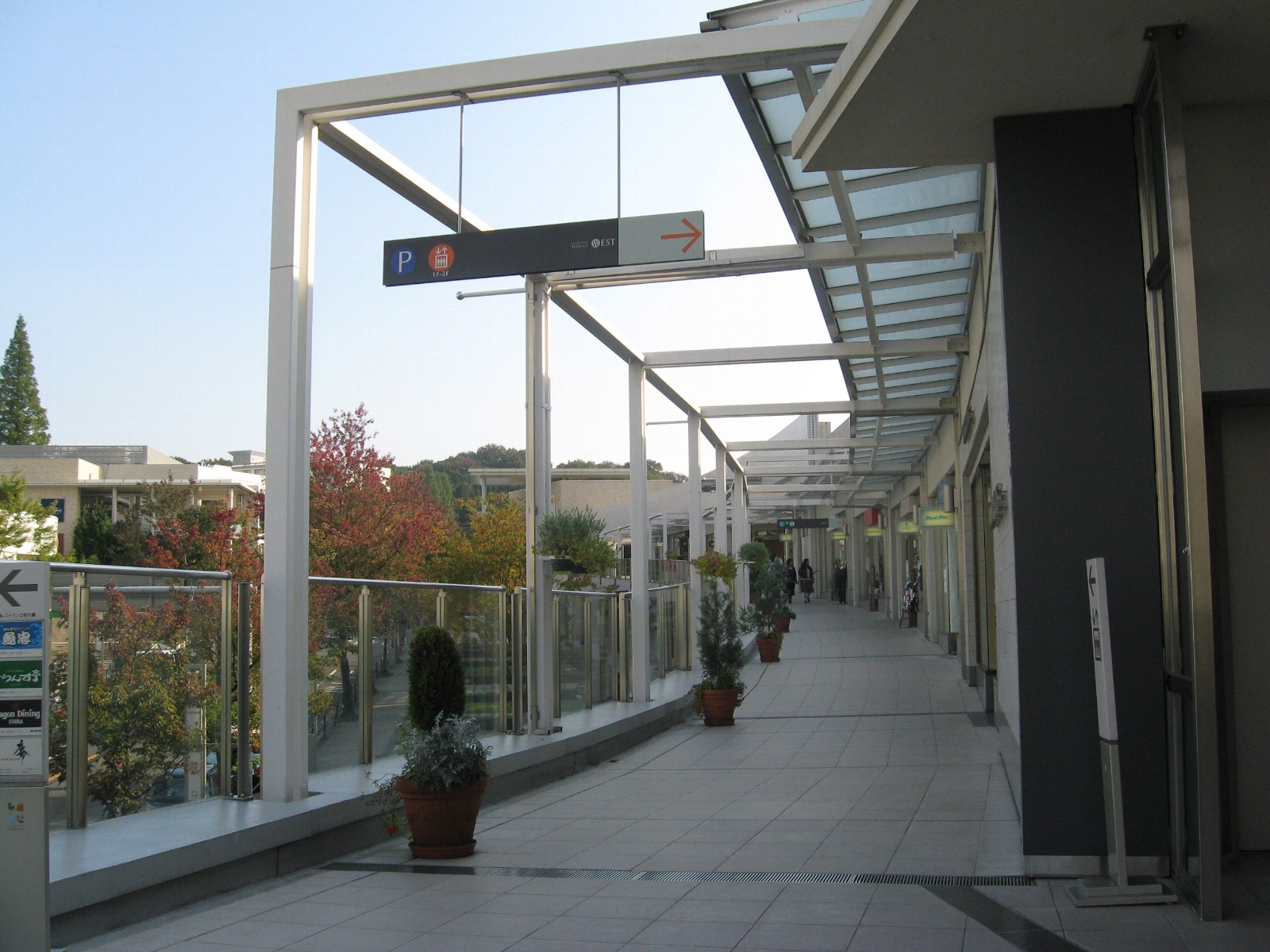 名古屋市の星が丘テラスWestの2階 (Upstairs Hoshigaoka Terrace in Nagoya, Japan)